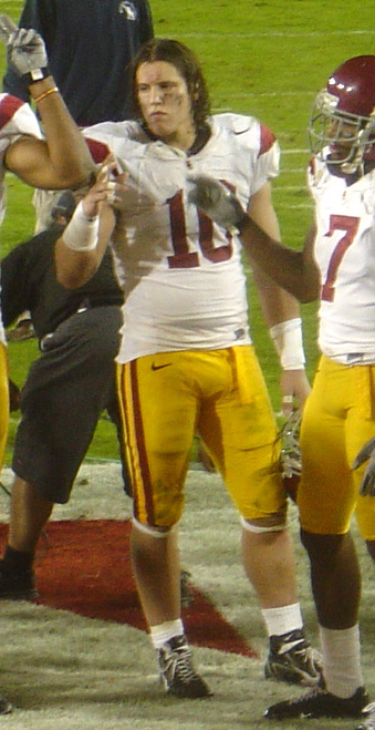 Linebacker (playing at the "Elephant" position in the 3-4 defense used in 2006) Brian Cushing celebrates a USC victory over Stanford. He is making the traditional USC Trojan "V" for victory hand sign.